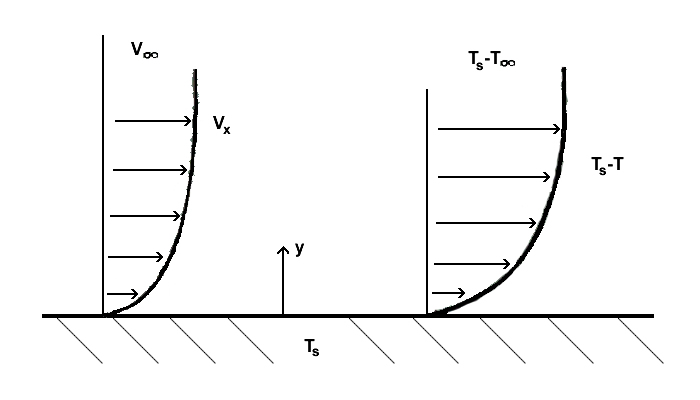 Velocity and temperature boundary layers